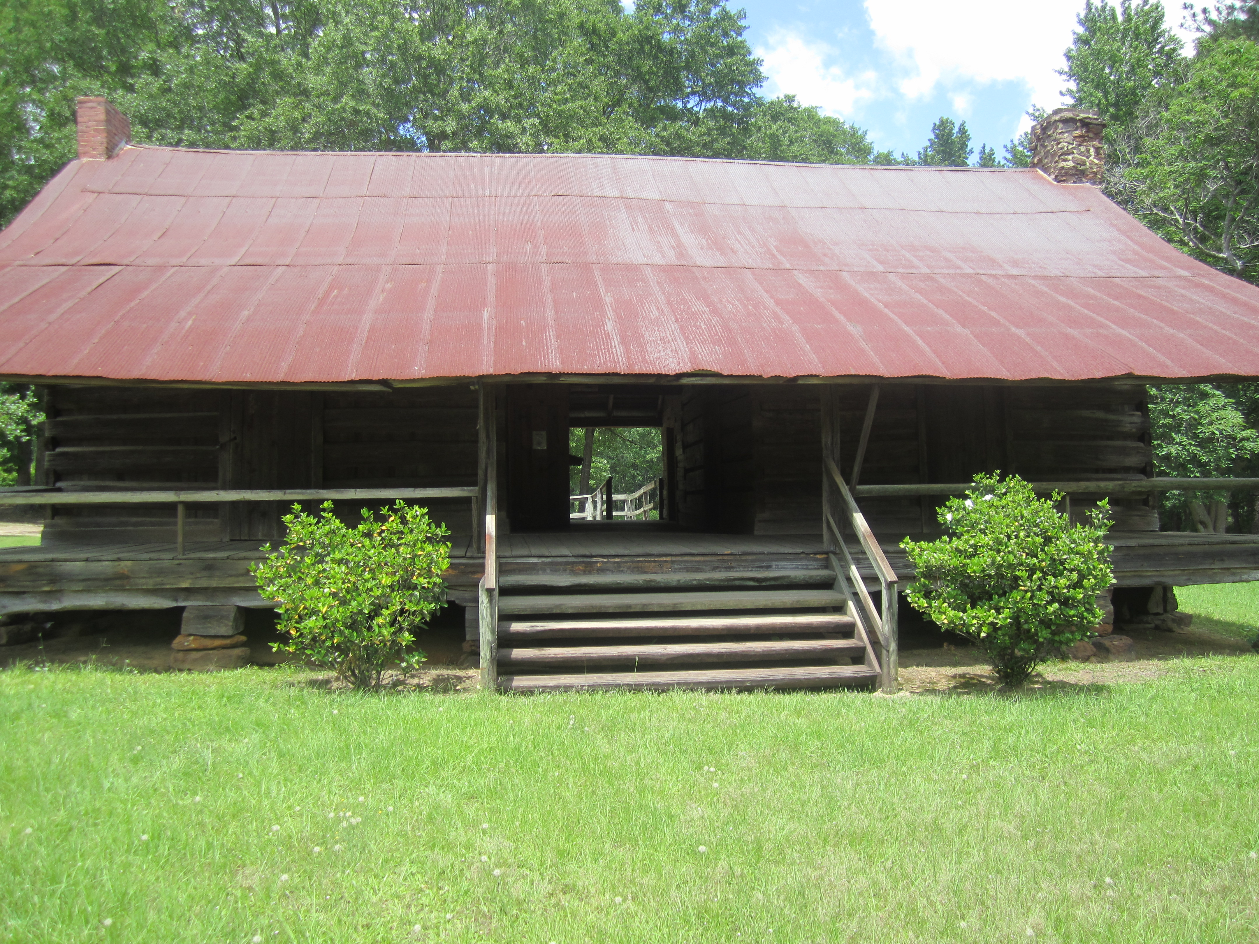 I took photo with Canon camera of Autrey Dogtrot House in Lincoln Parish, west of Dubach, LA.